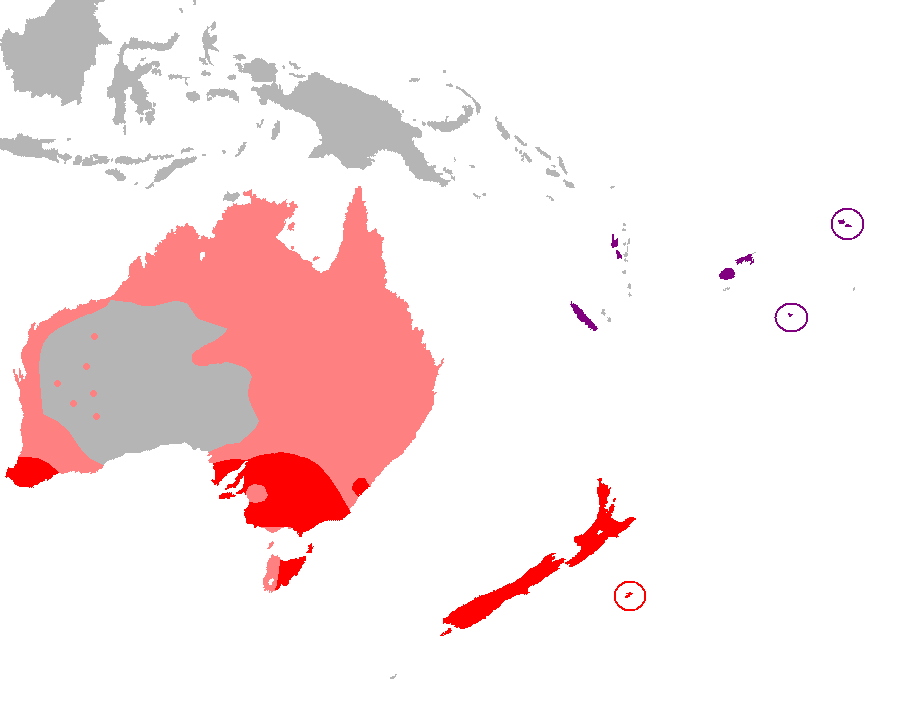 Distribution of the subspecies of the Australasian Swamp Harrier (Circus approximans). Purple: C. approximans approximans Red: C. approximans gouldi, light red: wintering grounds Black line marks border of the distributions of gouldi, spilothorax and approximans. Based on: James Ferguson-Lees, David A. Christie: Greifvögel der Welt. Franck-Kosmos Verlag, Stuttgart 2009. ISBN 9783440115091, S. 150.